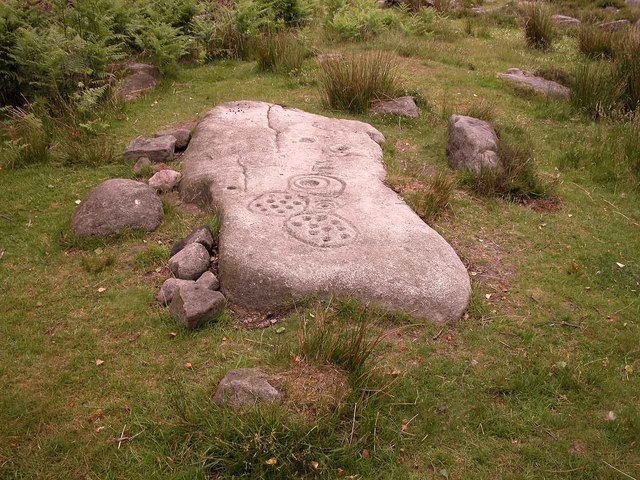 Rockart near Gardom's Edge This is only a fibreglass replica of the prehistoric rock art discovered on this spot. All across this area on Gardom's Edge are reminders of earlier civilizations.